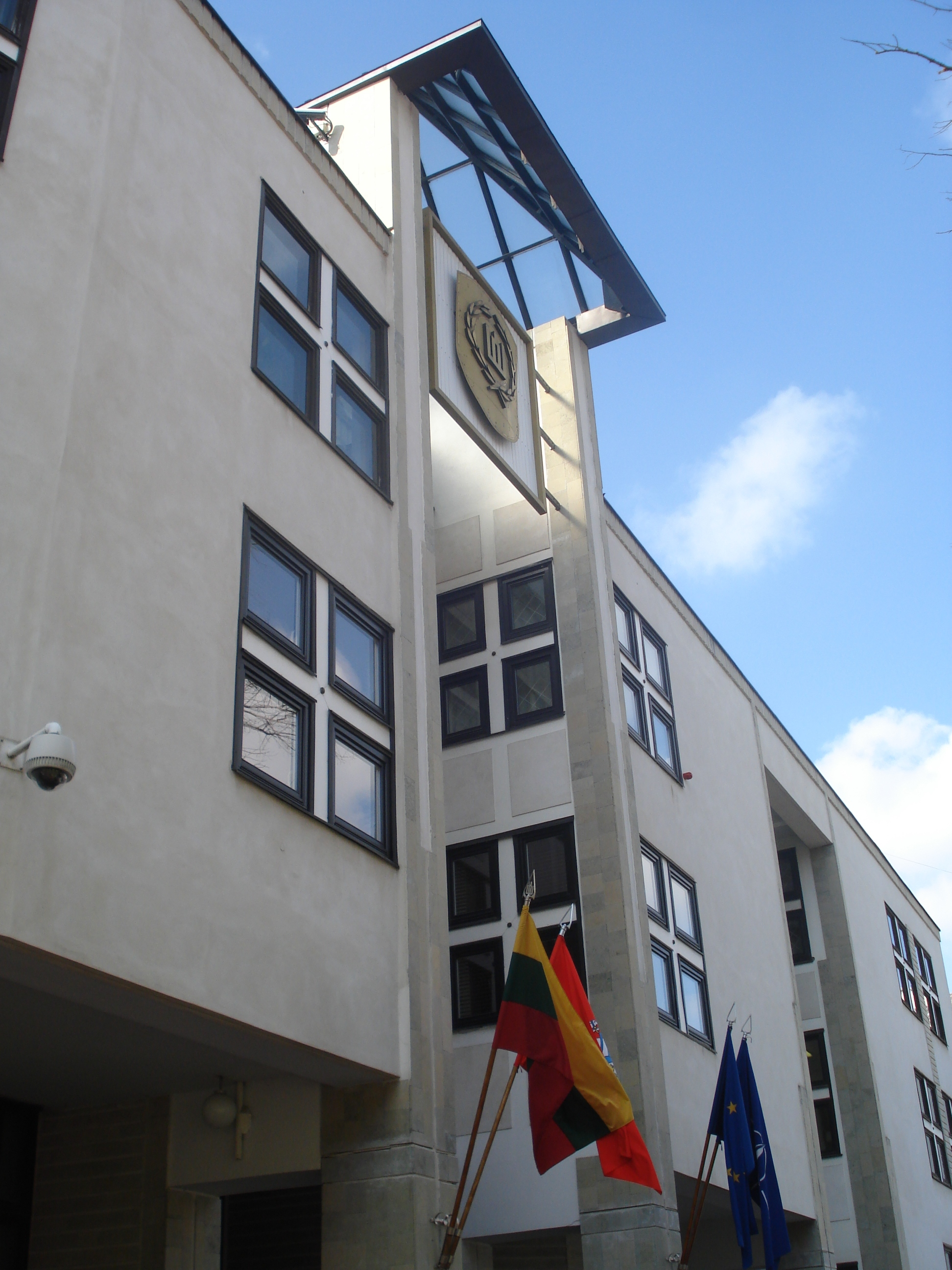 The Defence Staff of the Ministry of National Defence of Lithuania. Krašto apsaugos ministerijos Gynybos štabas. Totorių g. 25/3. Project by Elena Nijolė Bučiūtė. 1998